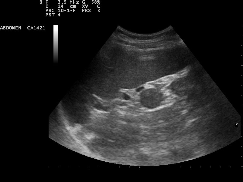 Ultrasound images of spleen